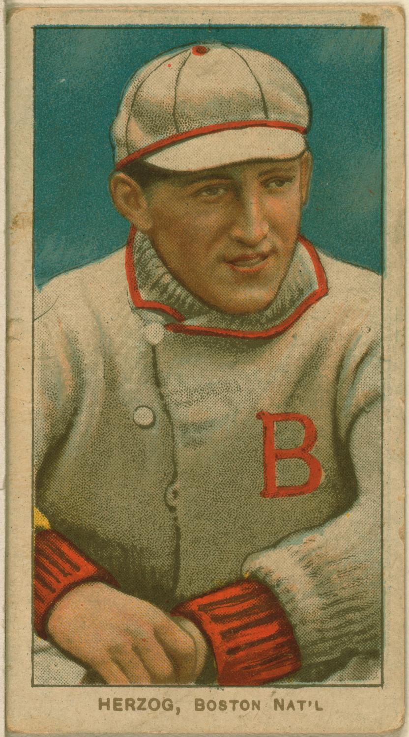 Baseball card of Charles Lincoln "Buck" Herzog